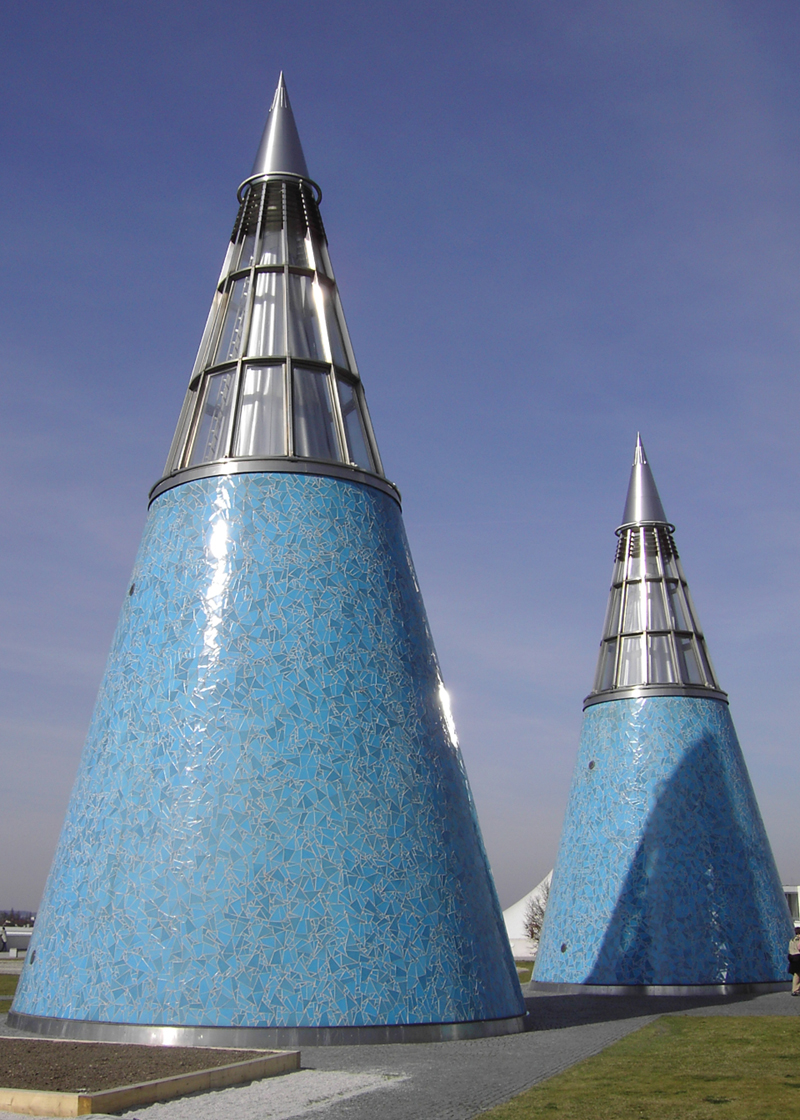 Roof-top gardens at the Art and exhibition hall of the Federal Republic of Germany, Bonn